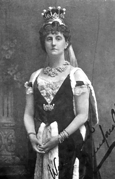 Countess Winifred Bamford-Hesketh of Dundonald